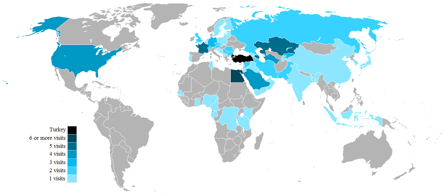 Foreign trips by Abdullah Gül as President of the Republic of Turkey.